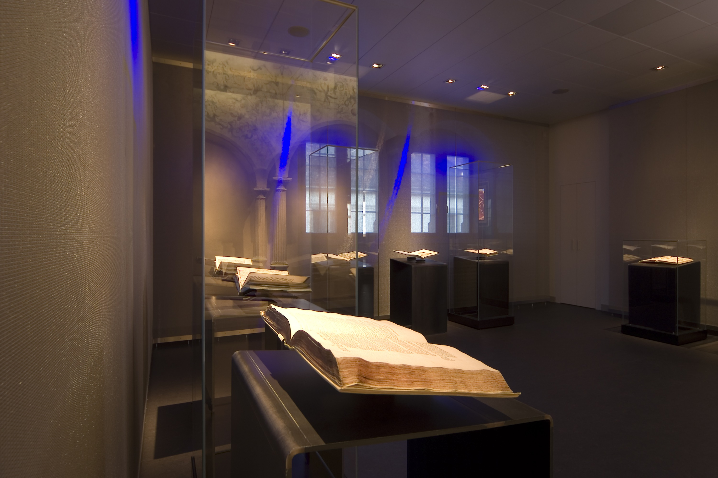 Iron Library in the Paradise Estate, Schlatt, Switzerland.